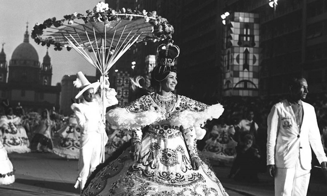 Carnival of Rio de Janeiro in the old days, Río-02-09-1964, Salgueiro